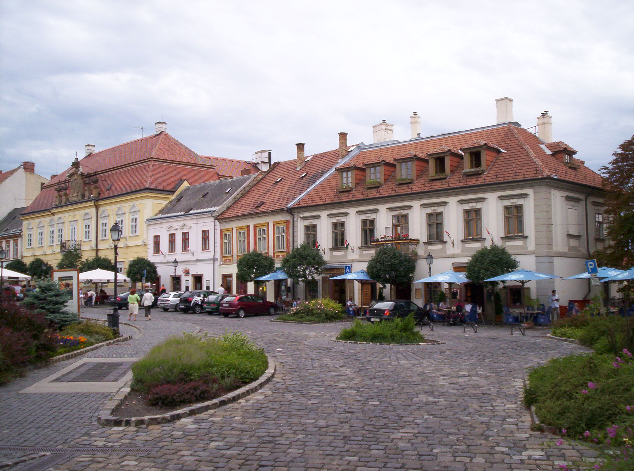 Western side of Óváros (Old town) Square, Veszprém